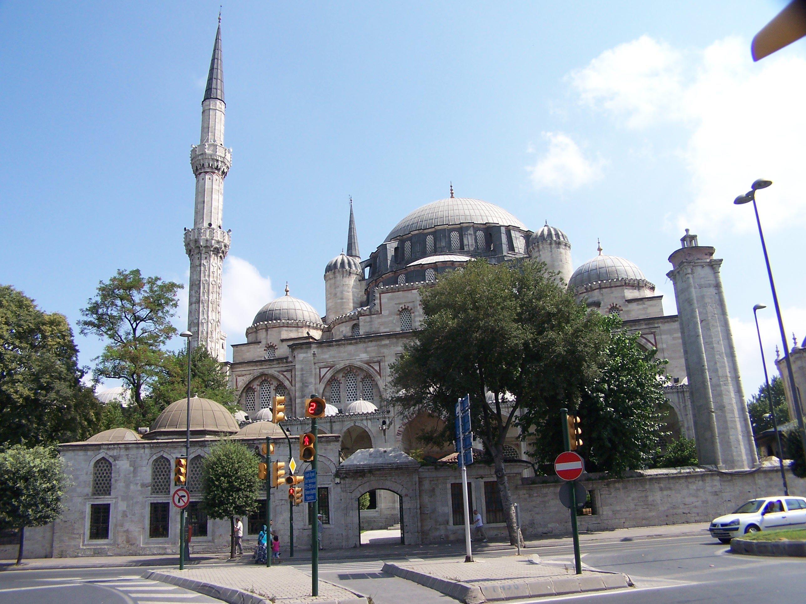 Şezahdebaşı Mosque in Istanbul, viewed from the other side of Şezahdebaşı Cadesi (Şezahdebaşı Street)